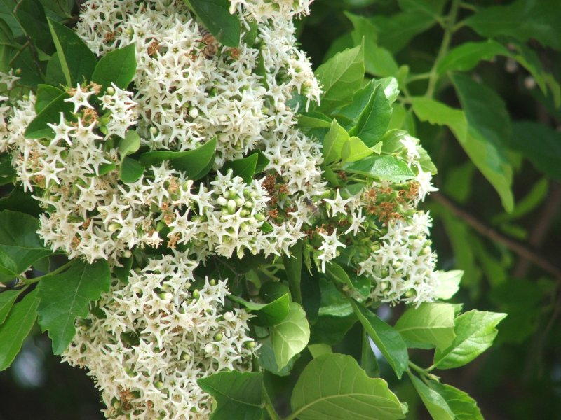 Ehretia anacua flowers